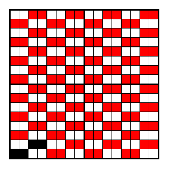 Waeve pattern for ribbed fabric.